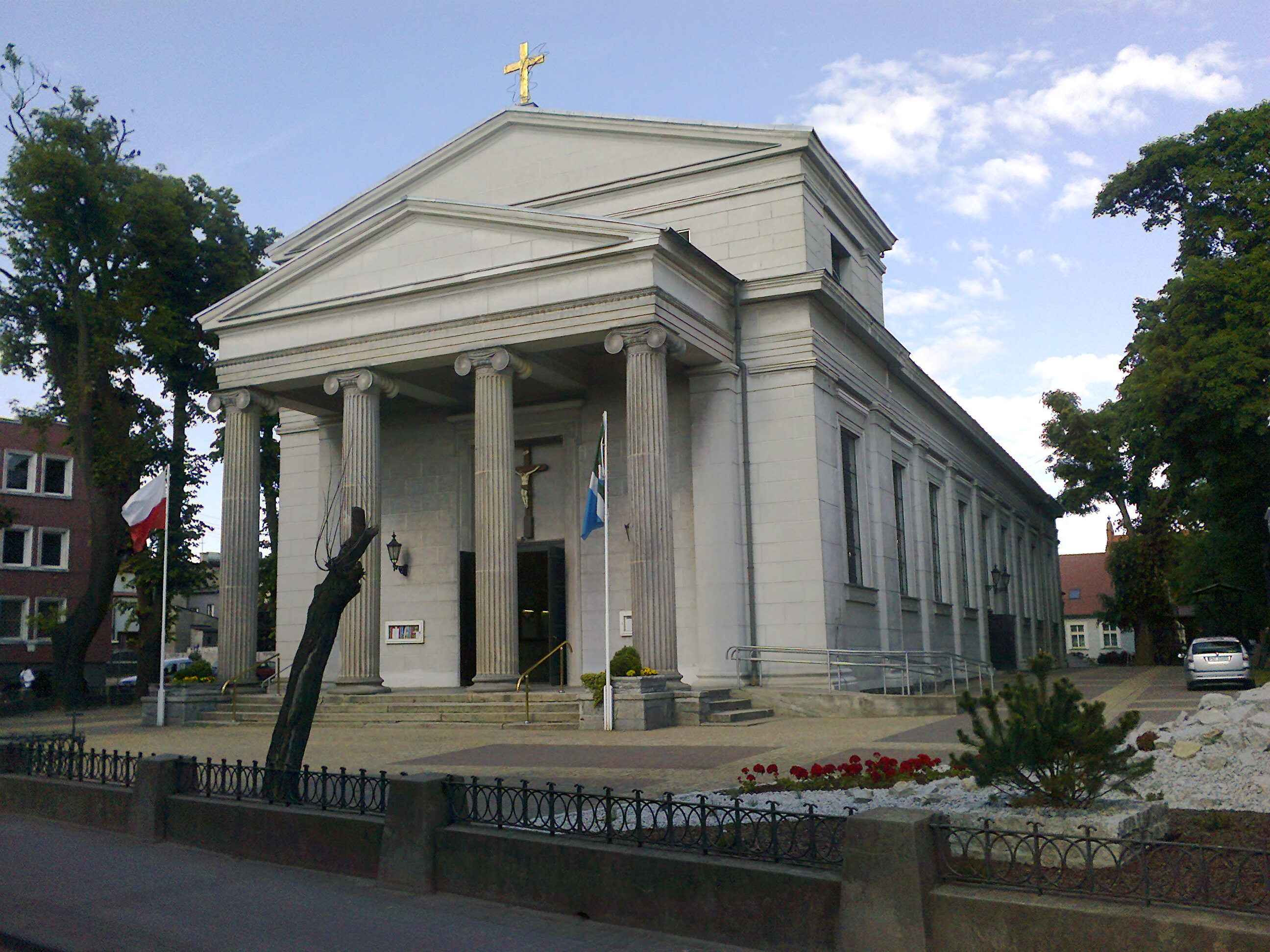 The parish church in Buk (Poland)